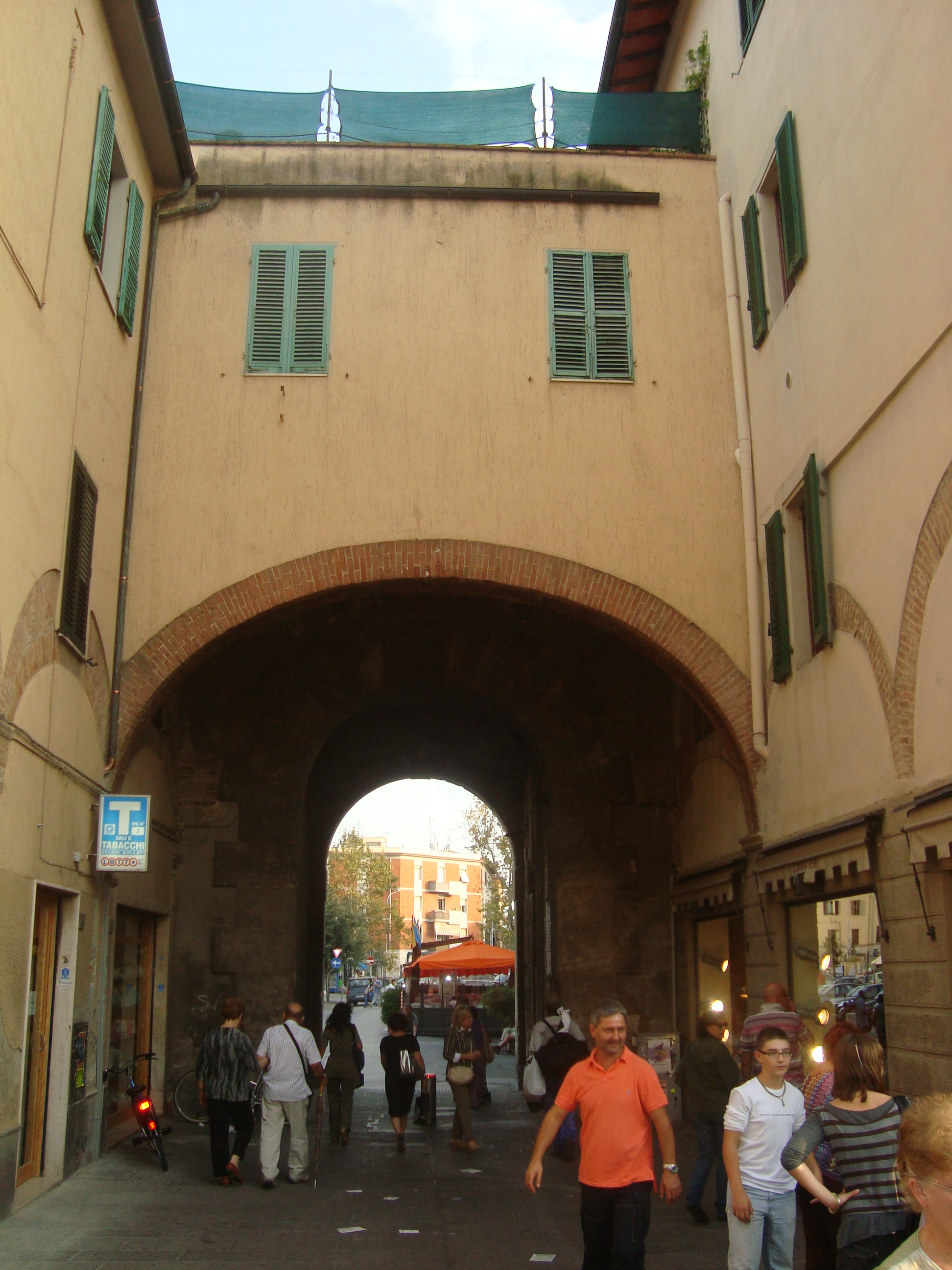 Porta Vecchia in Grosseto